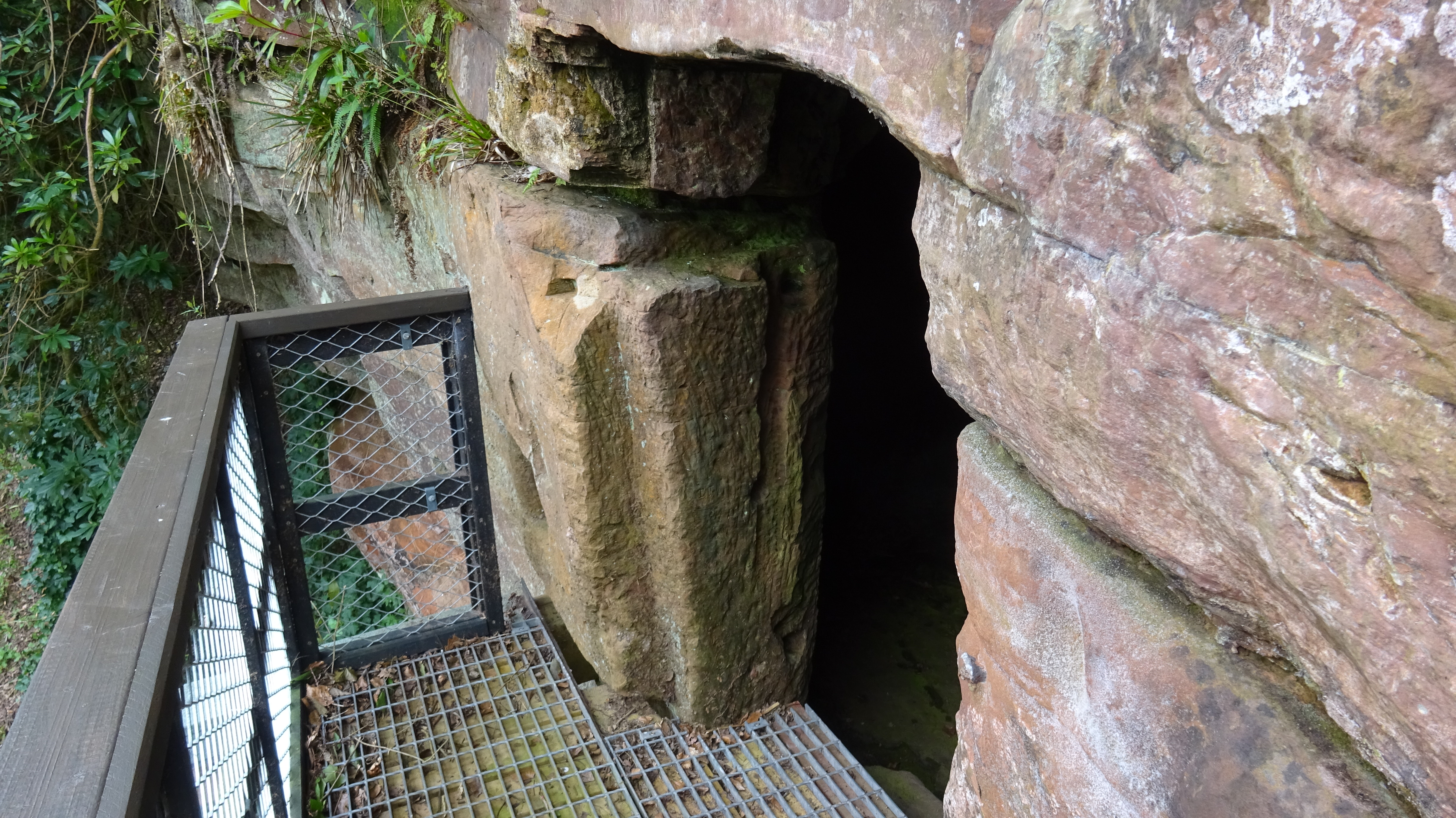 Bruce's Cave, access detail, Kirkpatrick-Fleming, Dumfries & Galloway, Scotland.